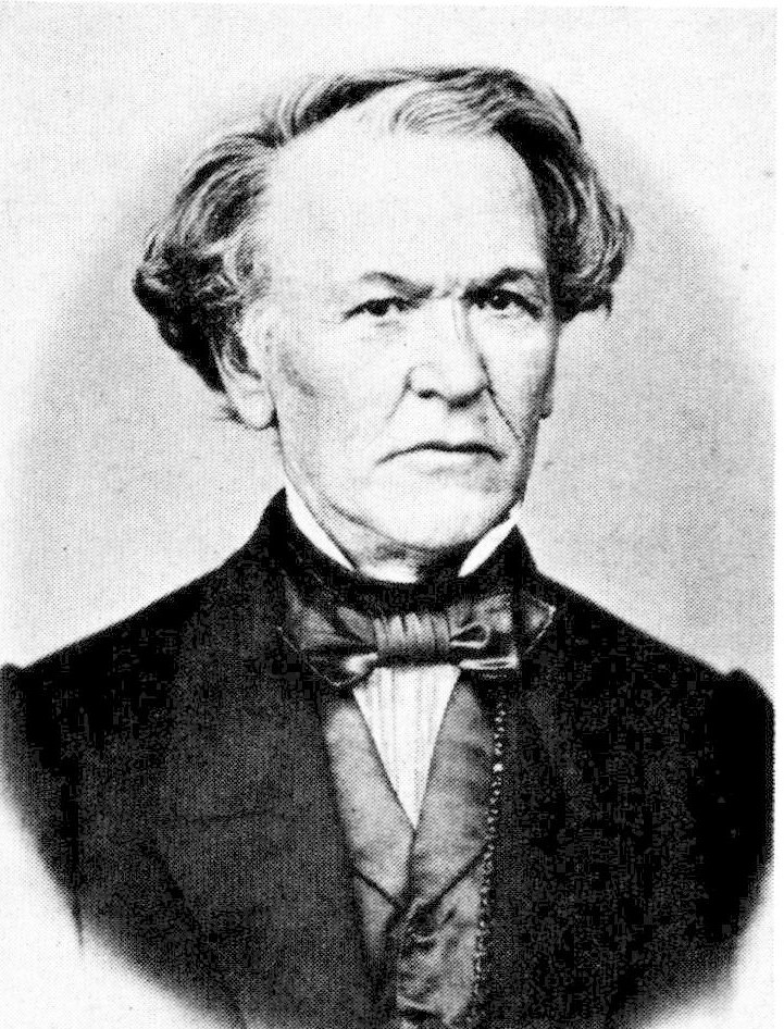 Swedish jurist and politician Lars Vilhelm Henschen